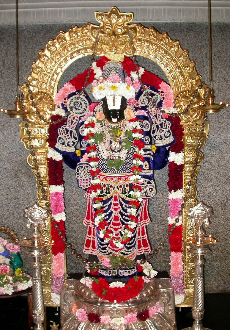 Lord Balaji in a pearl coat and with a garland of 108 Saligrama Silas at fortlauderdale, Miami